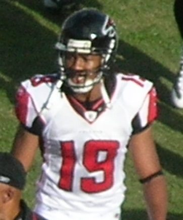 The Atlanta Falcons go into the locker room at halftime during a road game against the Oakland Raiders. The Falcons won 24-0.